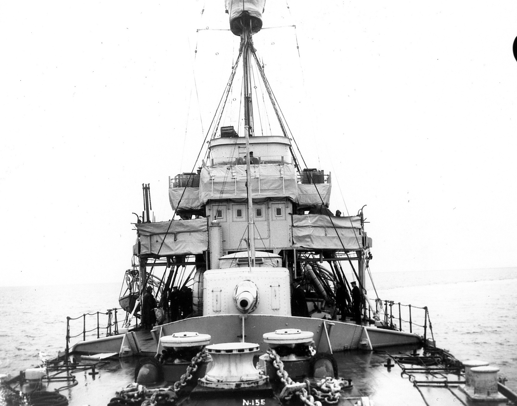 Photograph from the bow of the British cruiser HMS ROYALIST showing forward 6-inch gun and bridge.